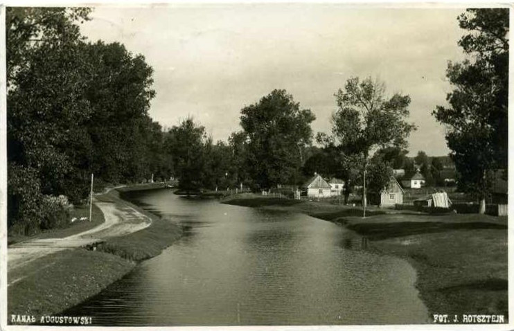 Augustów Canal in Augustów, Poland.